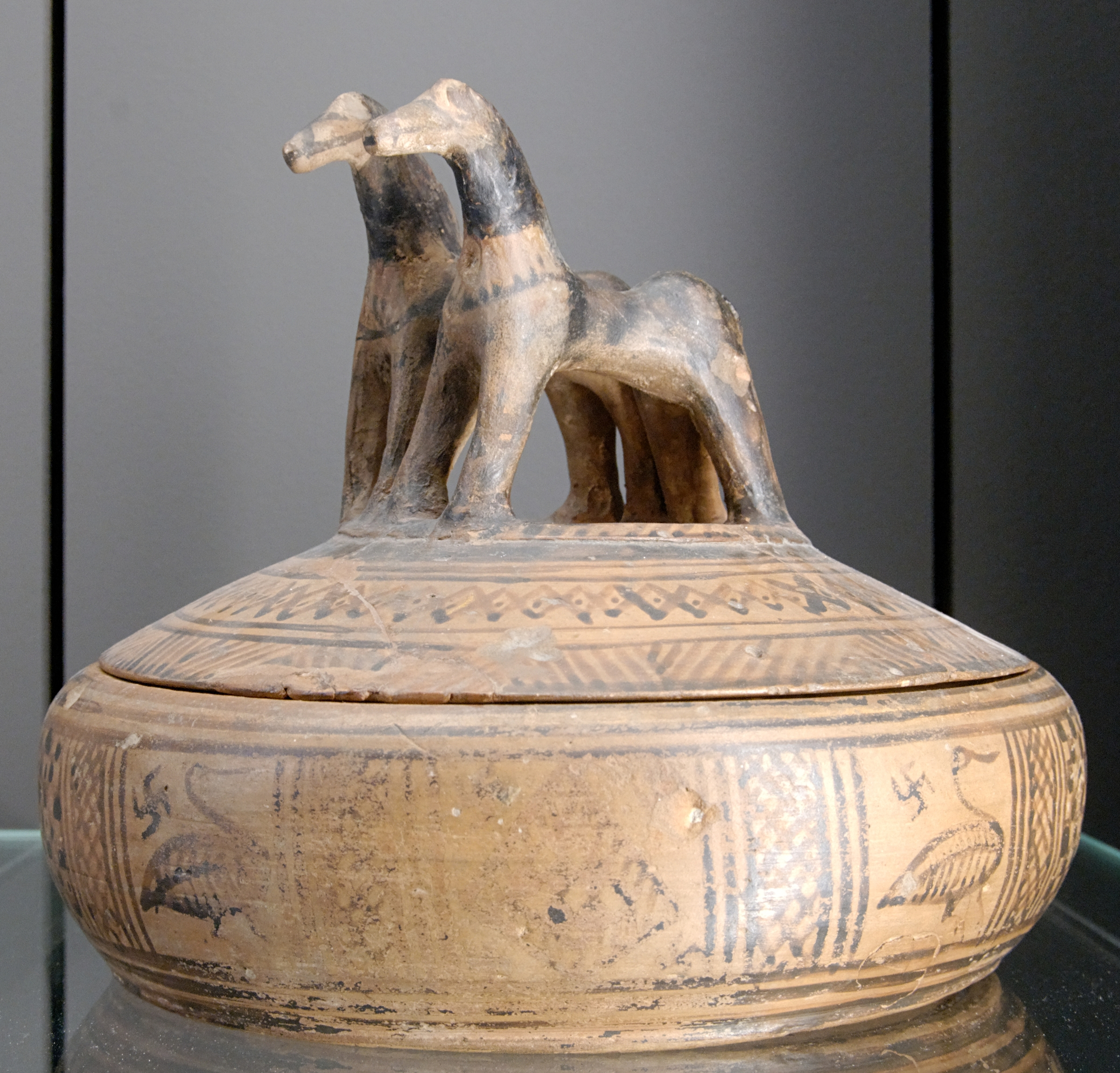 Attic pyxis with two horses standing on the lid, Late Geometric IB. From the Dipylon cemetary in Athens.